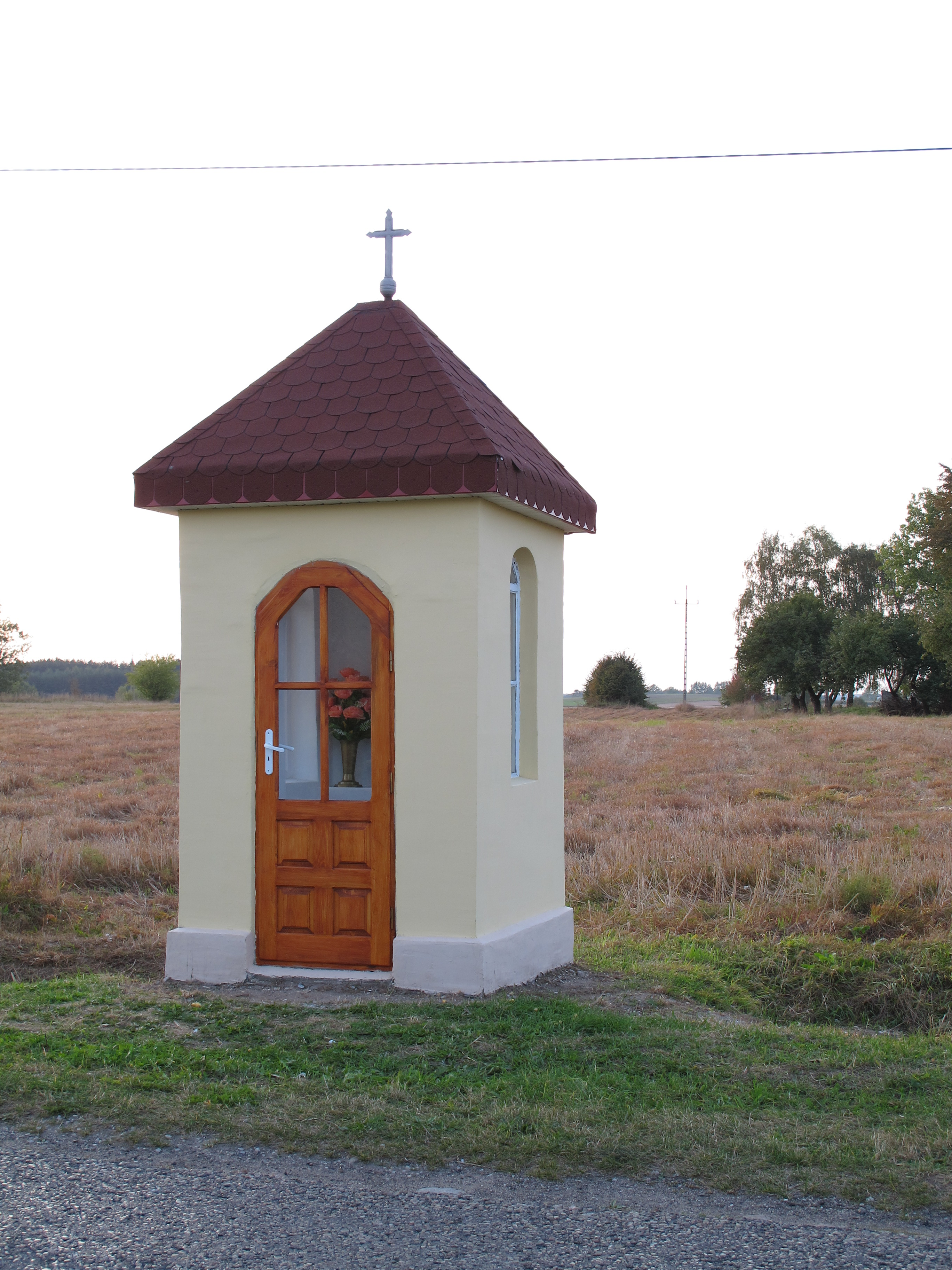 BVM wayside shrine from the beginning of XX century in Starowola, gmina Jaświły, podlaskie, Poland